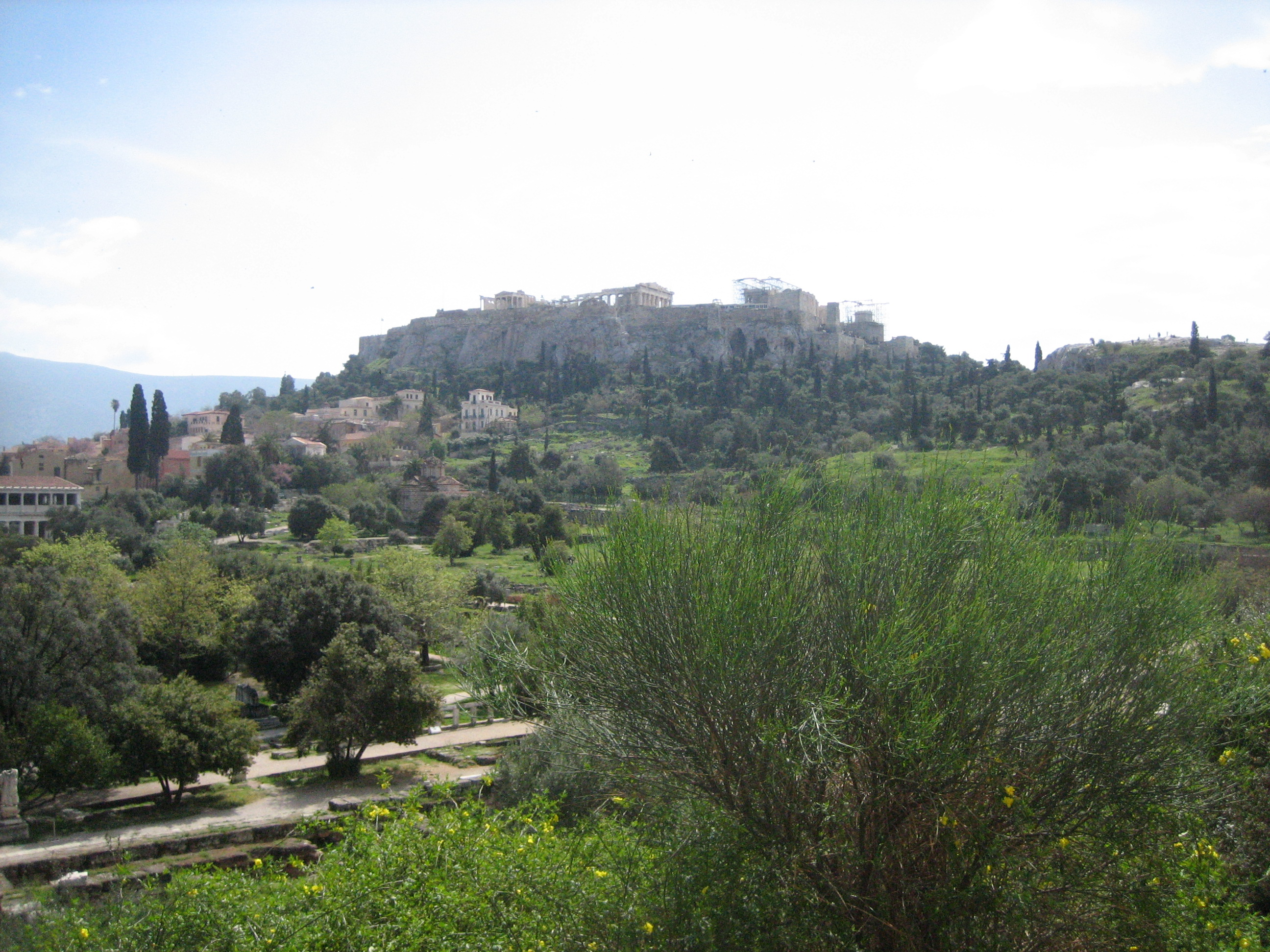 Acropolis of Athens from Colonos Agoraios hill near the Ancient Agora of Athens, Central Athens, Attica, Greece